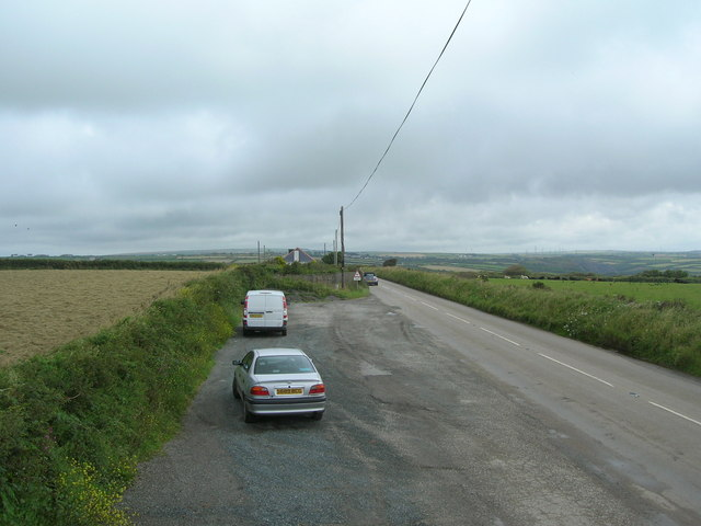 Lay-by above Westdowns Taken from above the hedge!